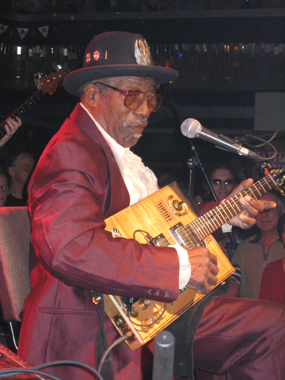 Bo Diddley in Prague (Lucerna Bar)